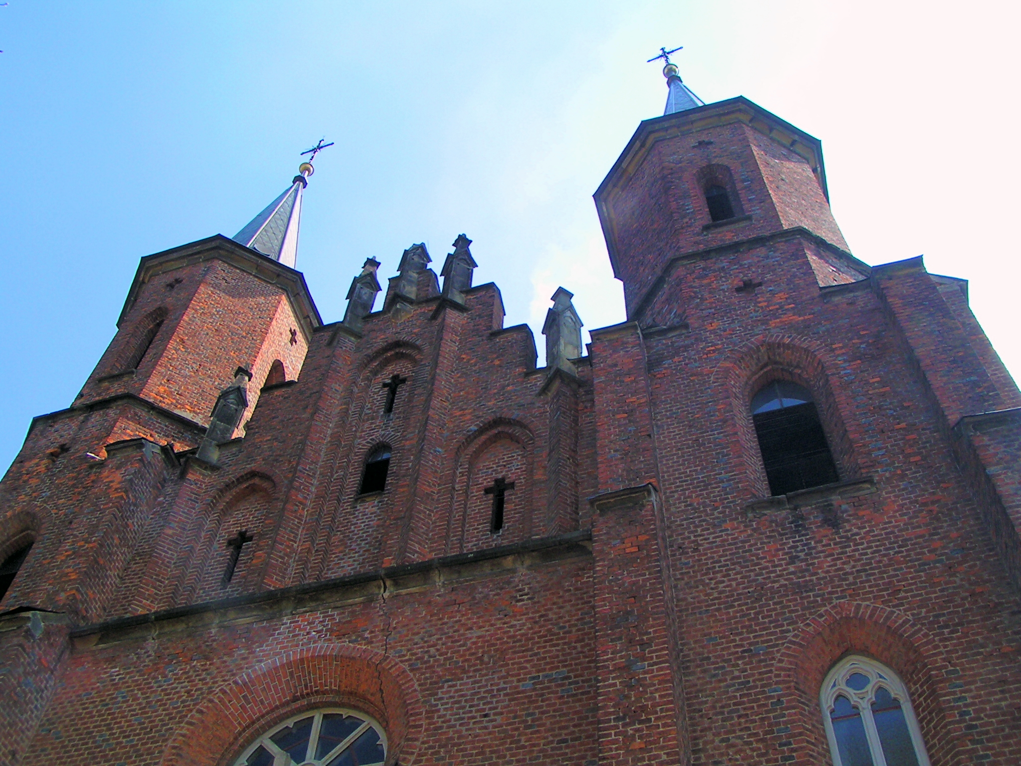 Parish Church of St. Martin the Bishop in Łużna